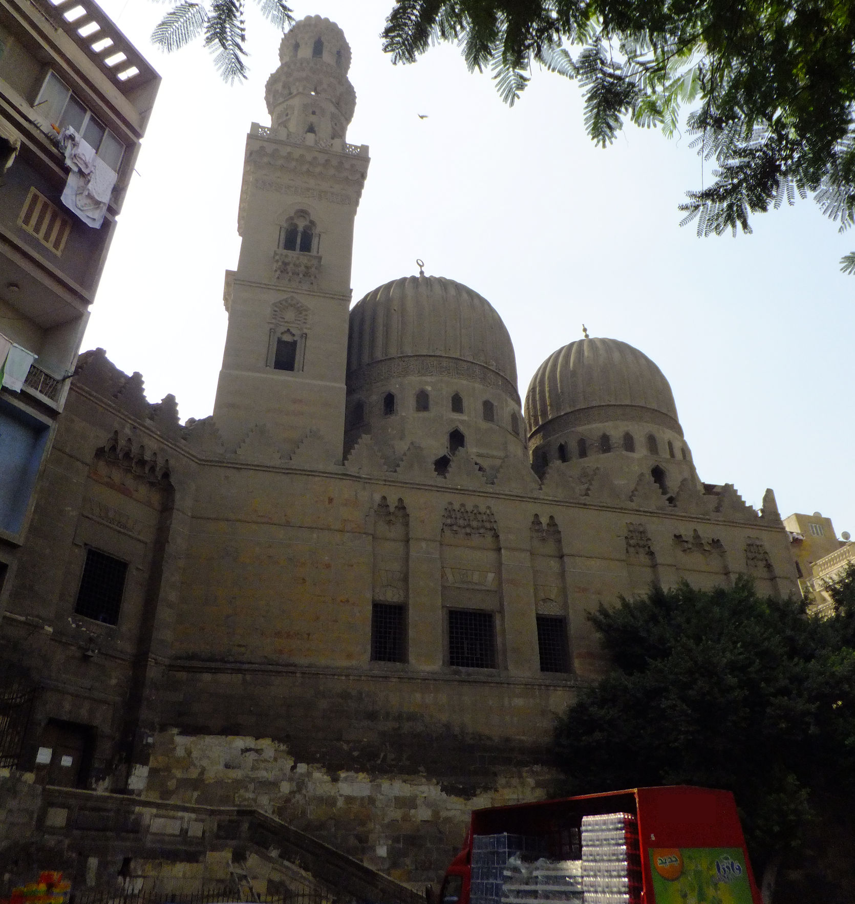 Funerary complex (mausoleum) of Salar and Sangar and al-Gawli - northern facade on Saliba street.